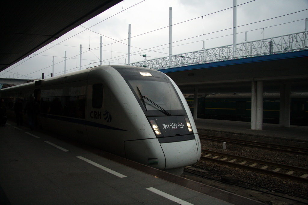 CRH1B high speed train before depart from Fuzhou Railway Station